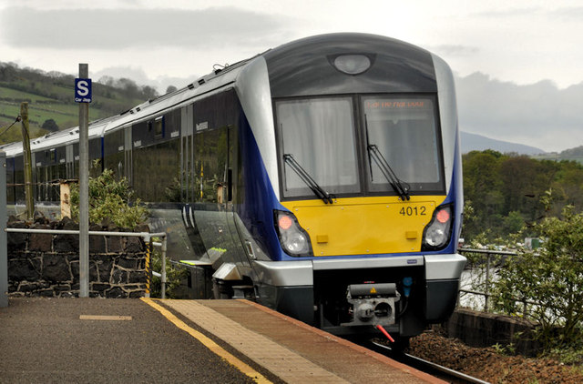 Train, Magheramorne (2012-1). C4K set 4012 departing Magheramorne with the 10.42 Belfast Central to Larne Harbour.